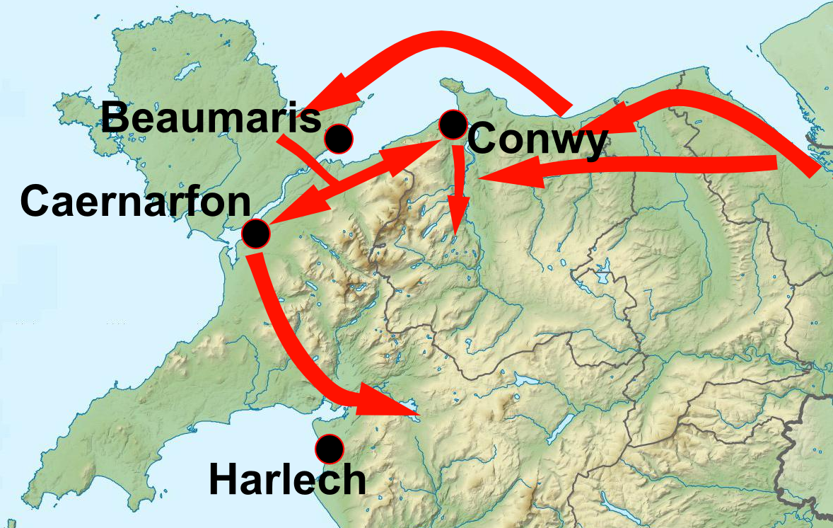 1282 Edward I invasion with UNESCO sites; invasion data from Michael Prestwich, Three Edwards, p.14